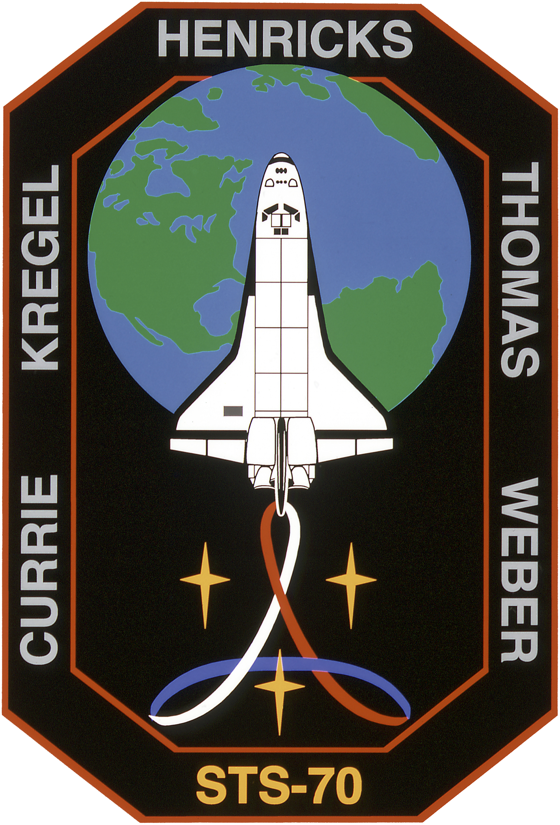 STS-70 Mission Insignia The STS-70 crew patch depicts the Space Shuttle Discovery orbiting Earth in the vast blackness of space. The primary mission of deploying a NASA Tracking and Data Relay Satellite (TDRS) is depicted by three gold stars. They represent the triad composed of spacecraft transmitting data to Earth through the TDRS system. The stylized red, white, and blue ribbon represents the American goal of linking space exploration to the advancement of all humankind.